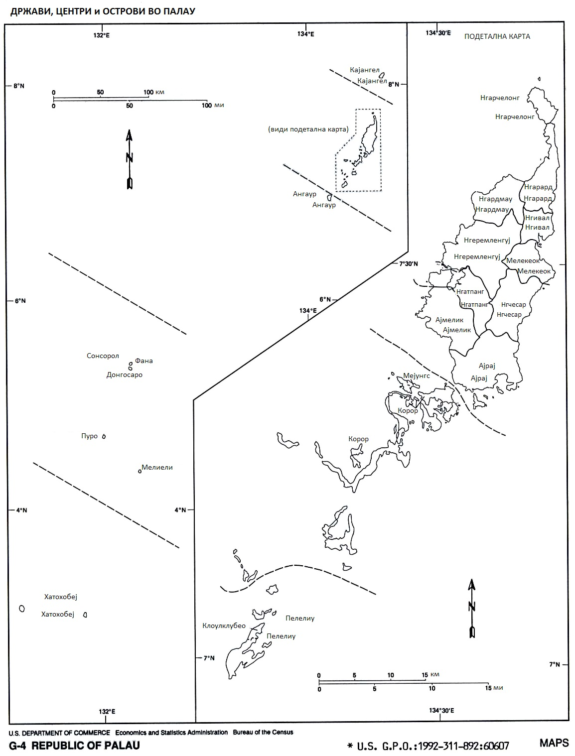 Map of the states of Palau in Macedonian.